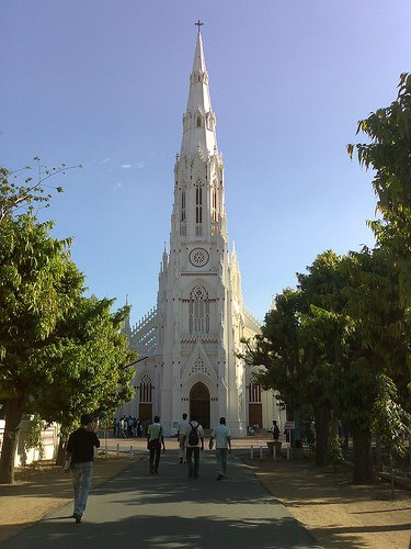 Recent Loyola College church